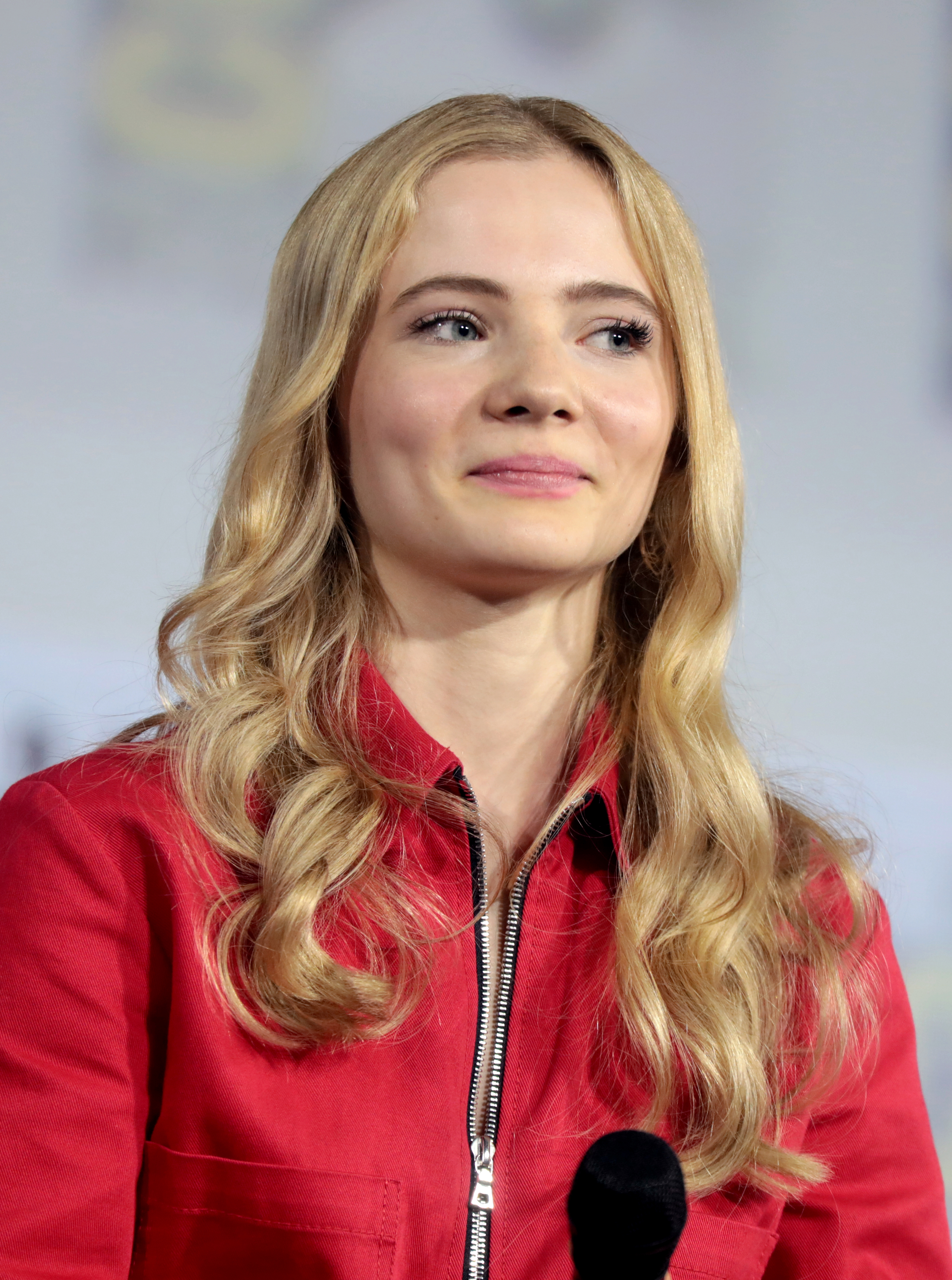 Freya Allan speaking at the 2019 San Diego Comic-Con International in San Diego, California.